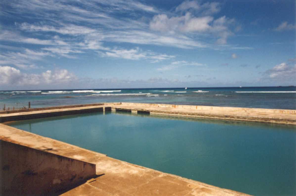 The Waikiki Natatorium from Flickr.